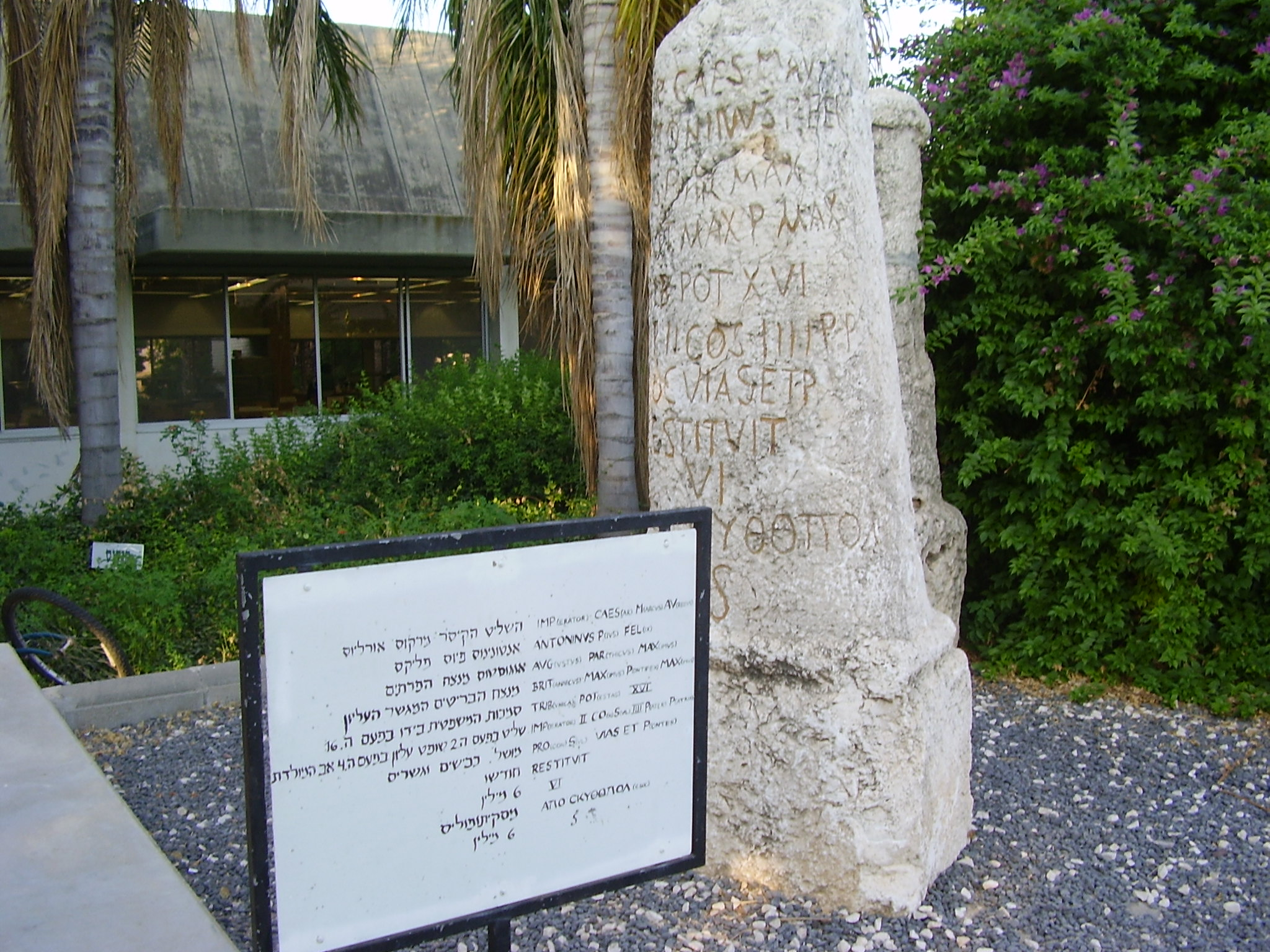 roman milestone in kibbutz tirat tzvi אבן מיל רומית מזמנו של הקיסר מרקוס אורליוס, בקיבוץ טירת צבי